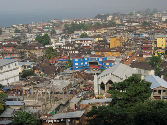 Freetown (Sierra Leona)